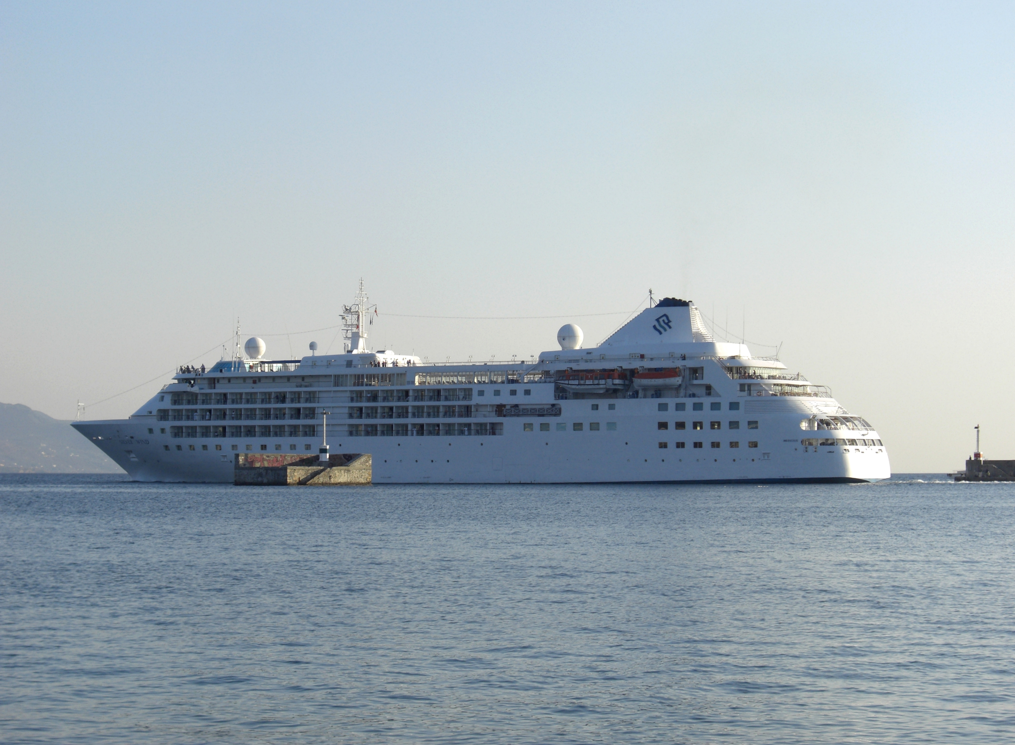 The cruise ship Silver Wind leaving the port of Kalamata in Greece.